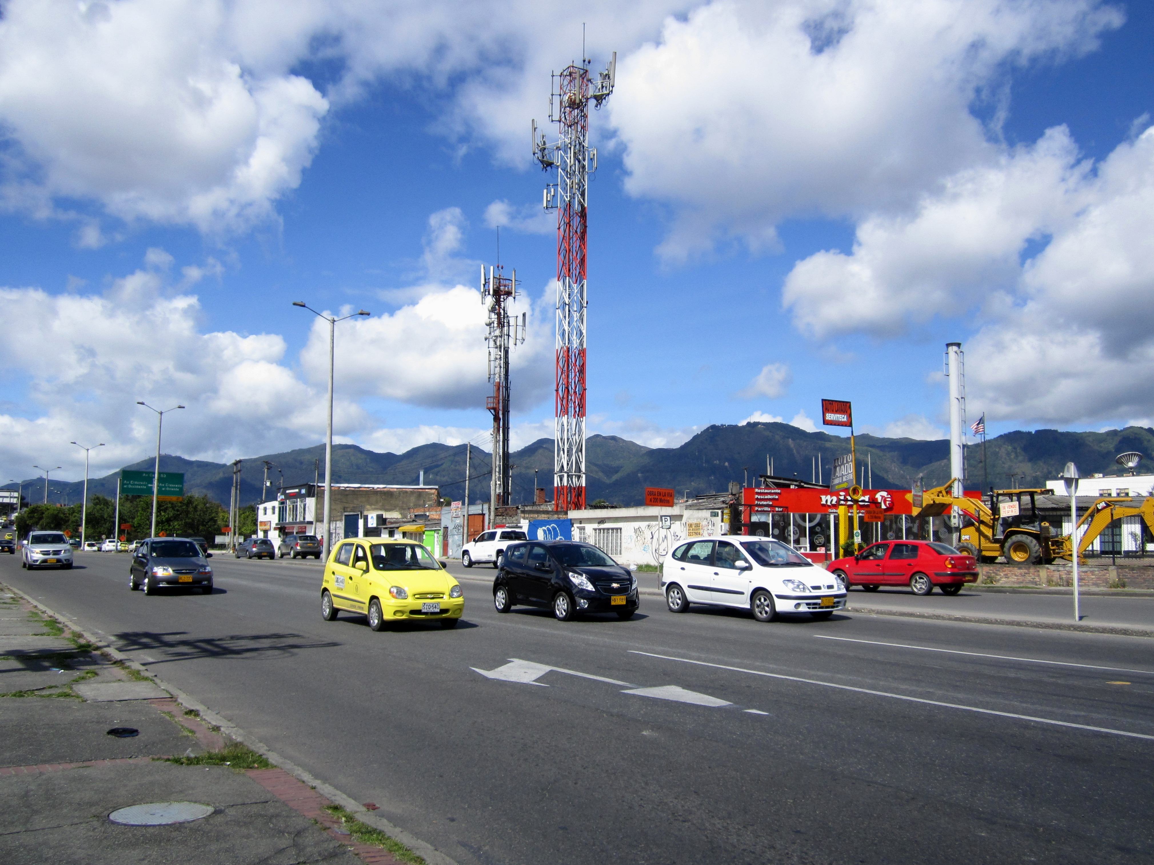 Bogotá